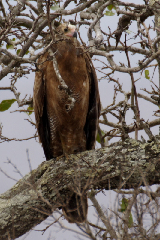 Juvenile African Harrier-hawk (Polyboroides typus)